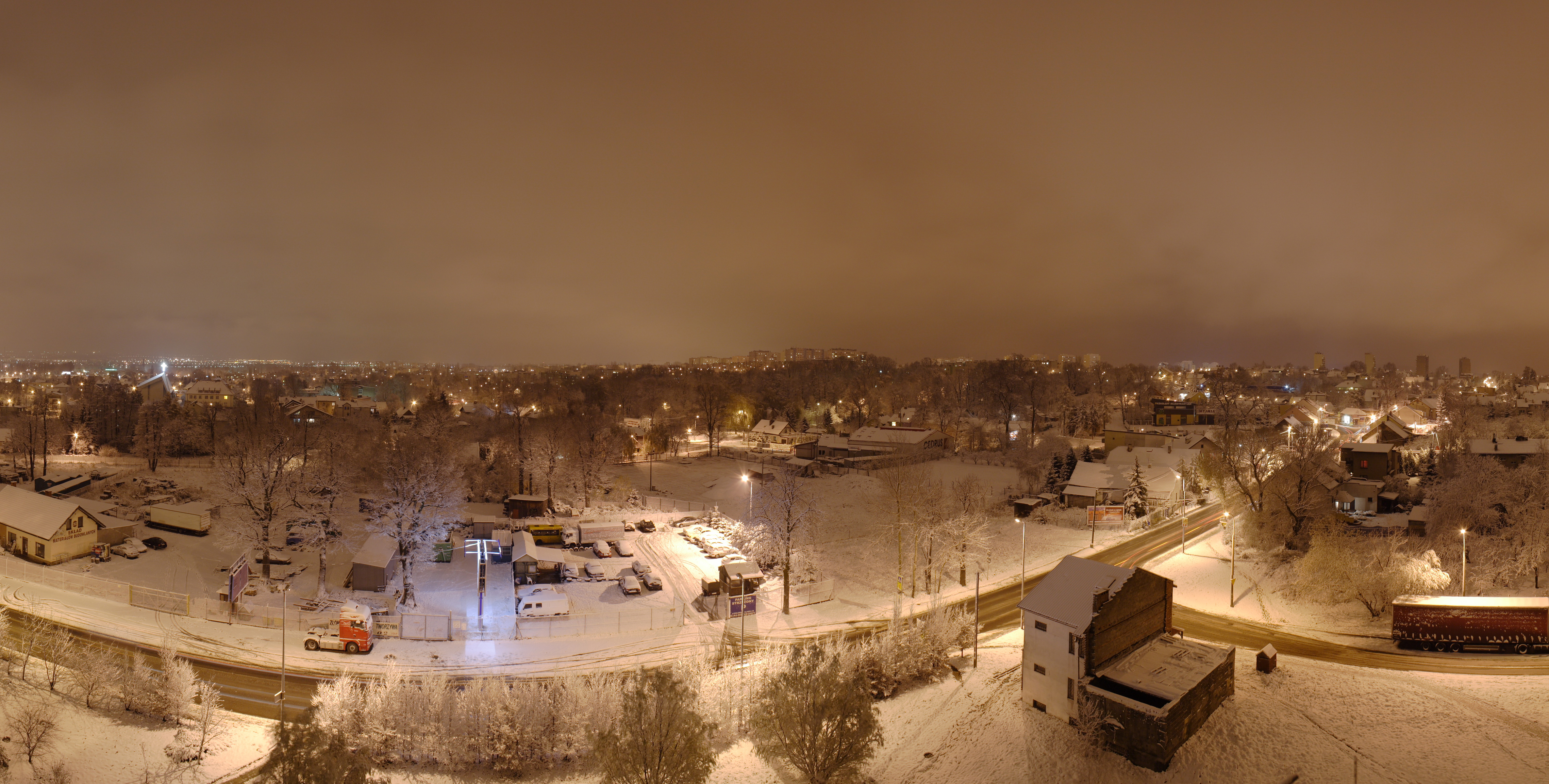 Wola Duchacka Wschód